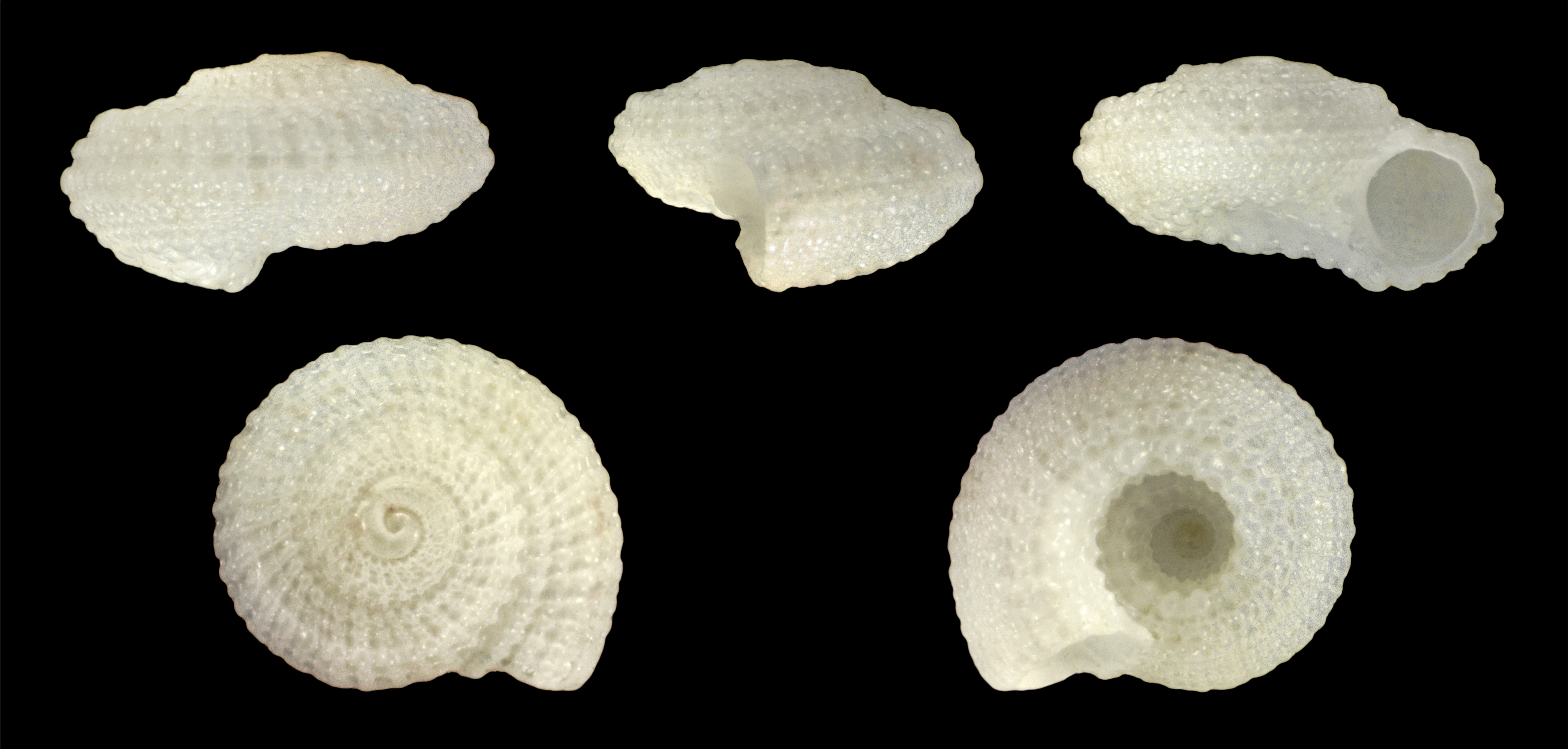 Pseudotorinia amoena (Murdoch & Suter, 1906); diameter 0.26 cm; Originating from Hong Kong; Shell of own collection, therefore not geocoded.